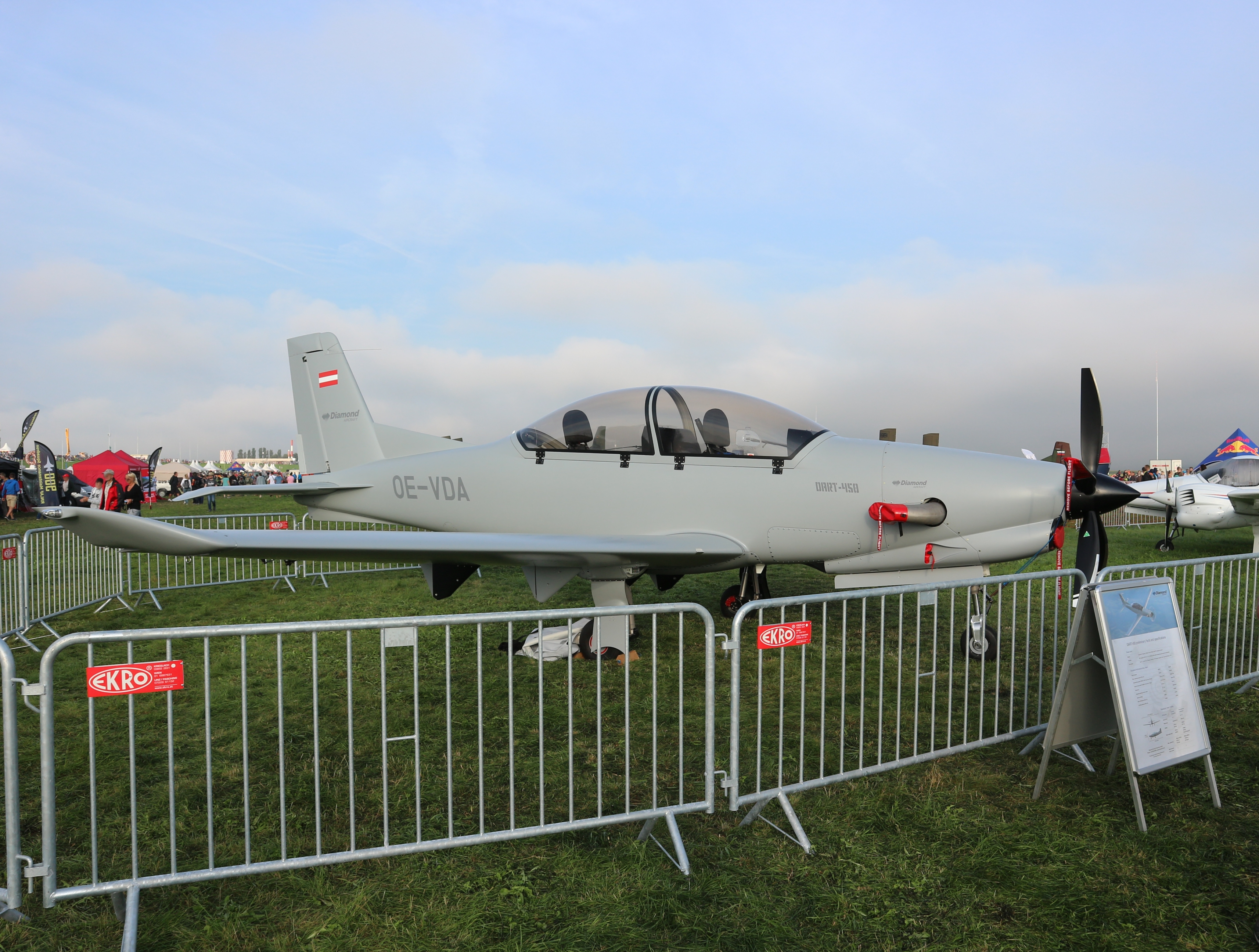 Diamond Aircraft DART 450